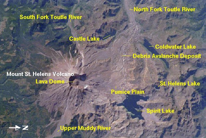 Satellite picture of Mount St. Helens and its surrounding features, changed by the 1980 eruption, in southwestern Washington state.